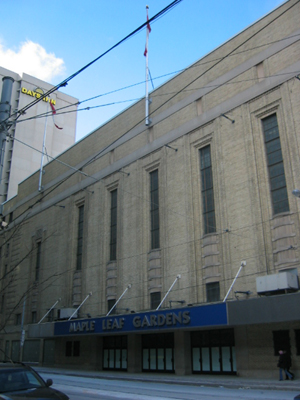 Maple Leaf Gardens, 2006.